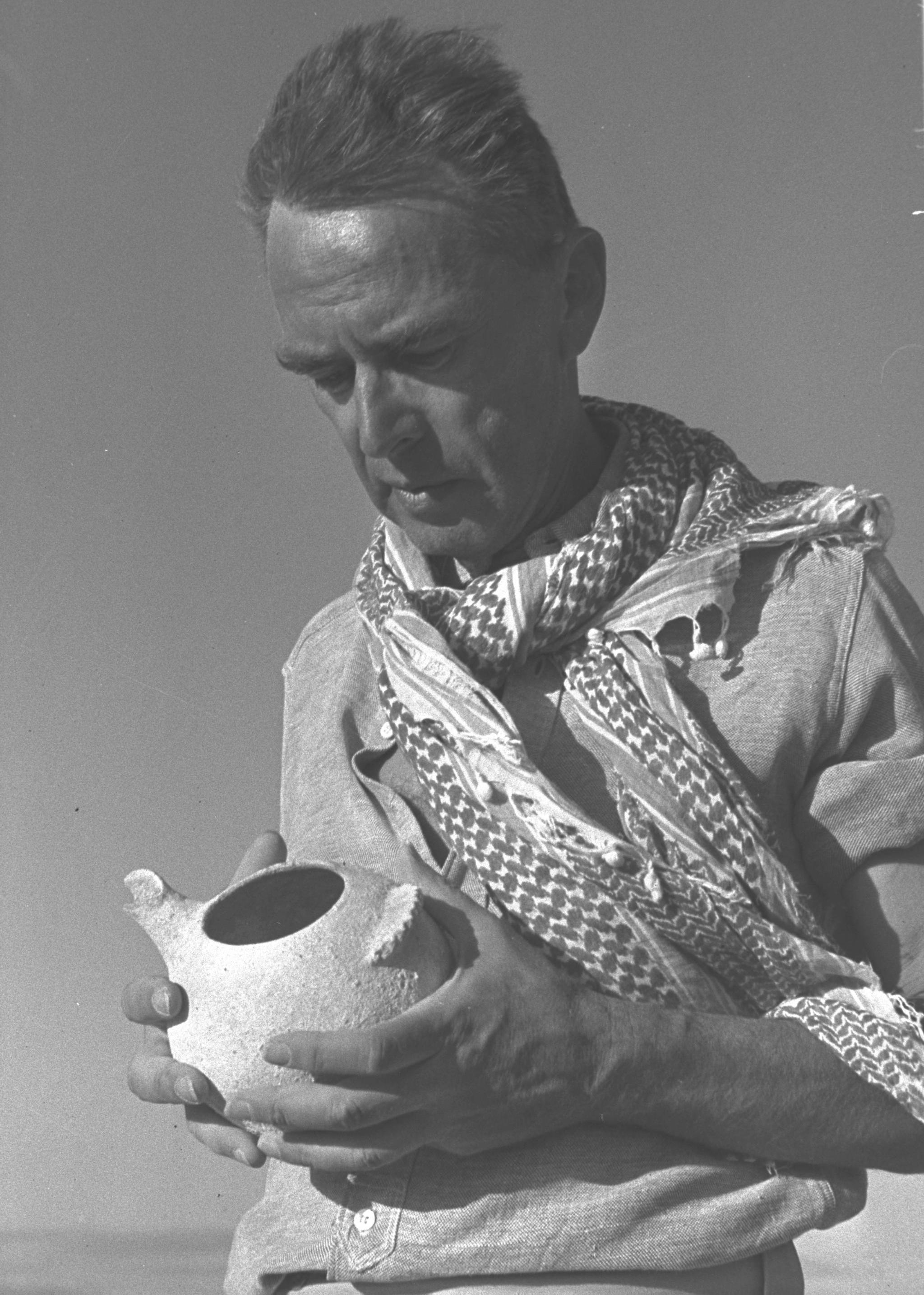 Archaeologist Prof. Nelson Glueck in Israel, 1956